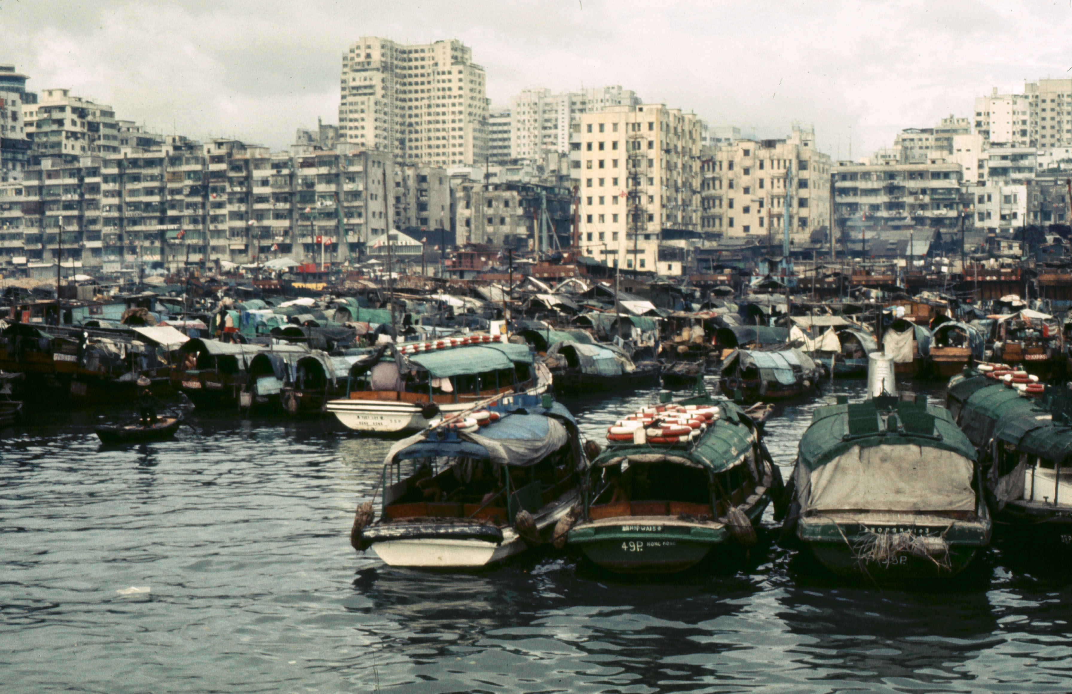 Boats in the Yaumati typhoon shelter; Hong Kong.